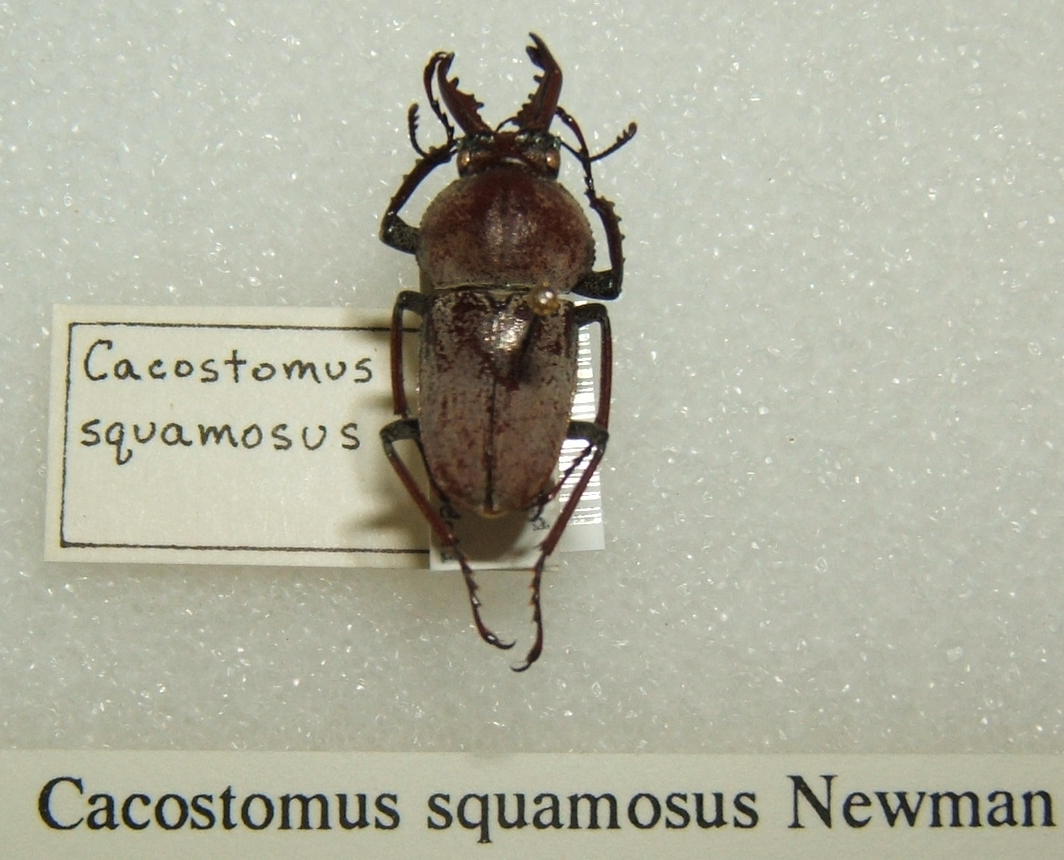 Cacostomus squamosus adult taken by Shawn Hanrahan at the Texas A&M University Insect Collection in College Station, Texas.